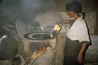 This is an image of food from Ethiopia